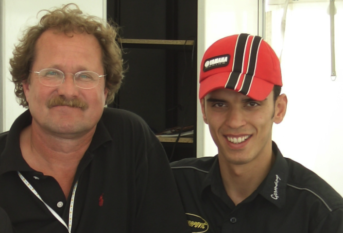 Helmut Diez and Kenan Sofuoglu